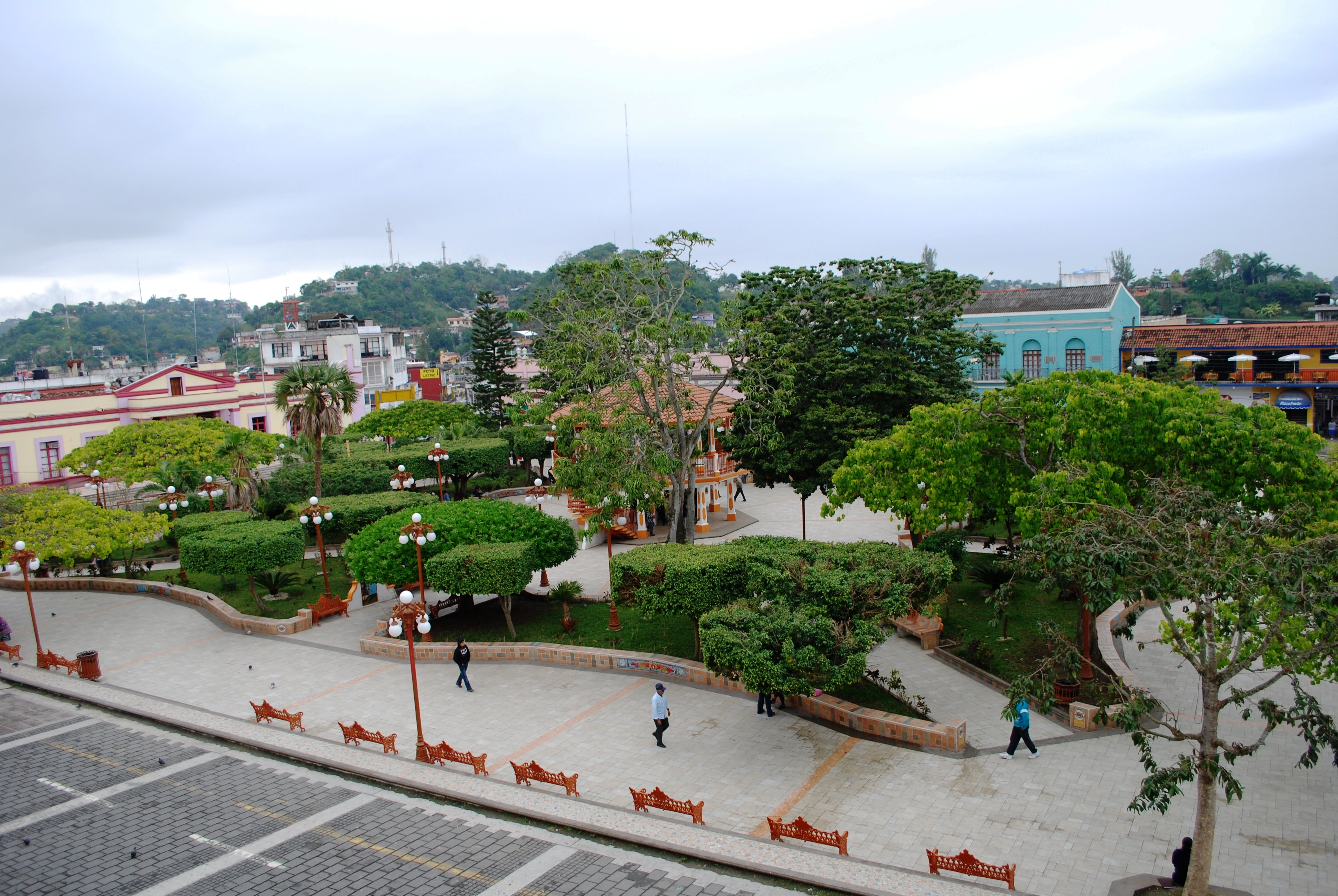 View of the main plaza of Papantla, Veracruz from the atrium of the church.